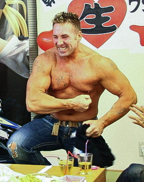 Job Position Tokyo And as for these photos - A Nico Nico broadcast at the Good Smile Company offices - find out exactly whats going on in this photo ^^; View more at